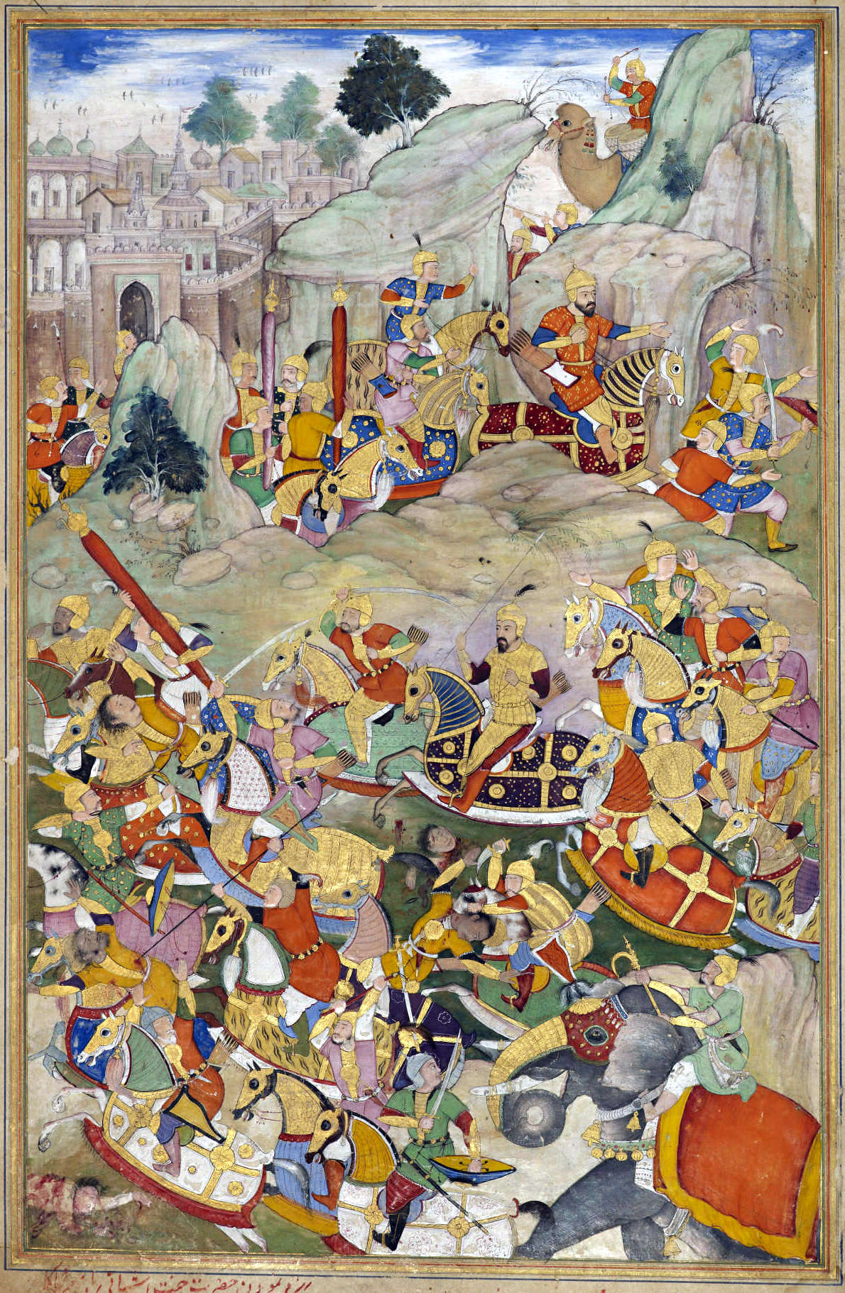 Humayun finally defeated his rebellious brother Kamran in Kabul in 1553, in a battle that paved the way for his return. This painting was commissioned by Akbar c.1597, and is from the collection of the Aga Khan Museum (*more information*); click on the image for a large scan. (downloaded Apr. 2011)